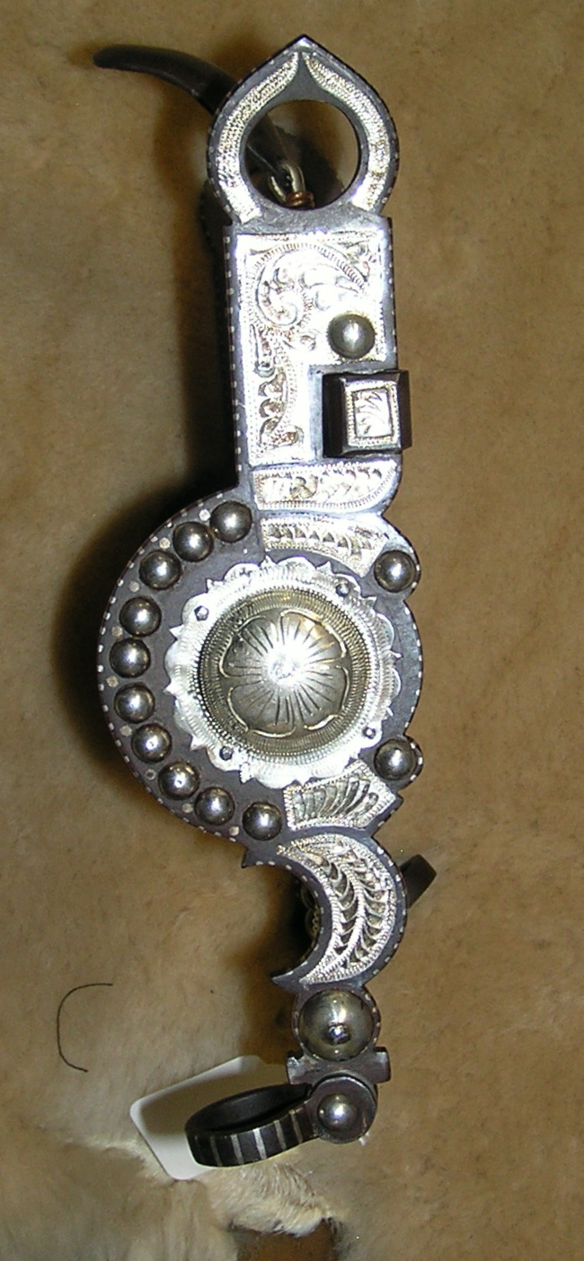 The shank of a classic spade bit. Image taken with staff permission at Three Forks Saddlery, Three Forks, MT